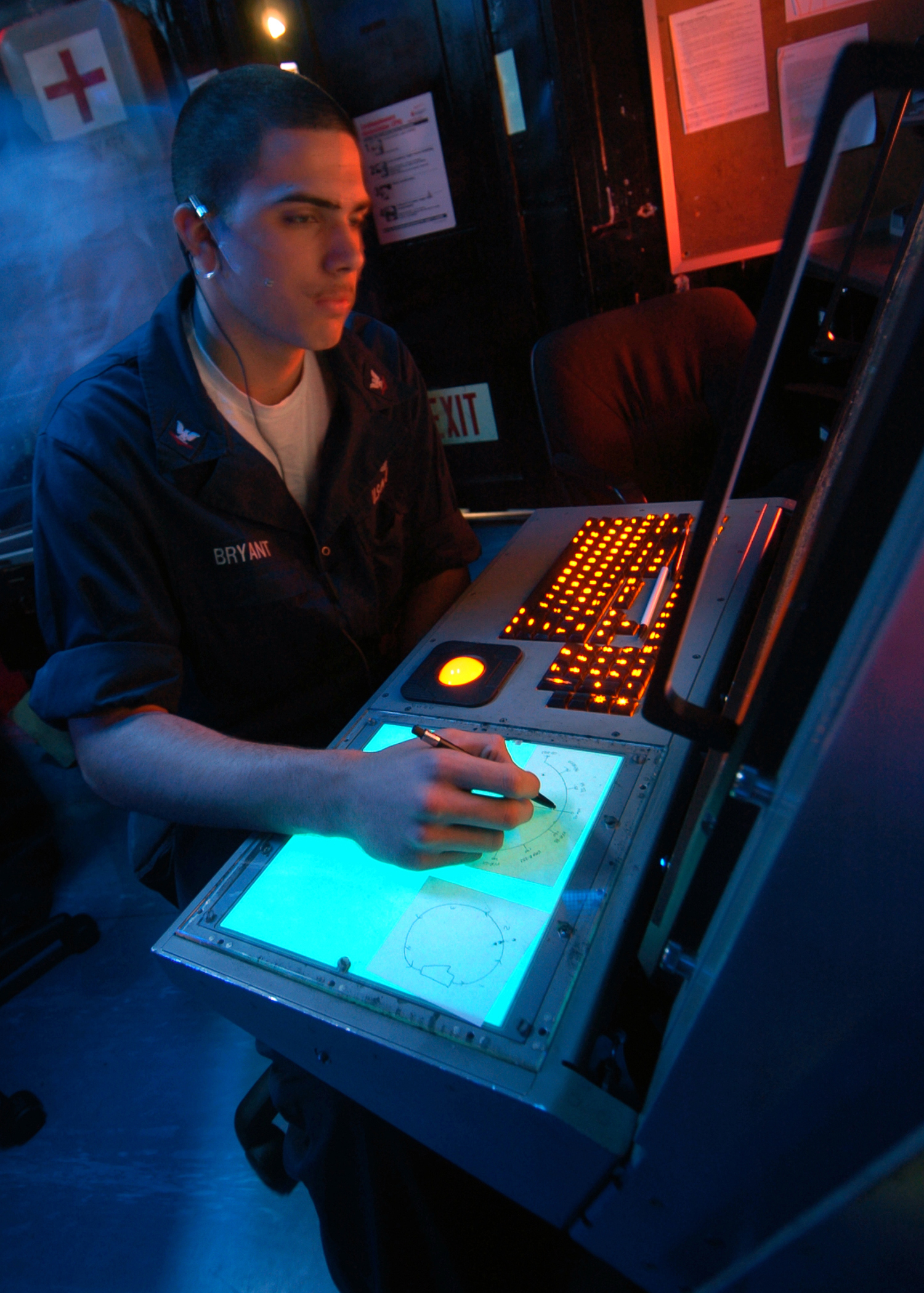 Air traffic controler (CVN-65)